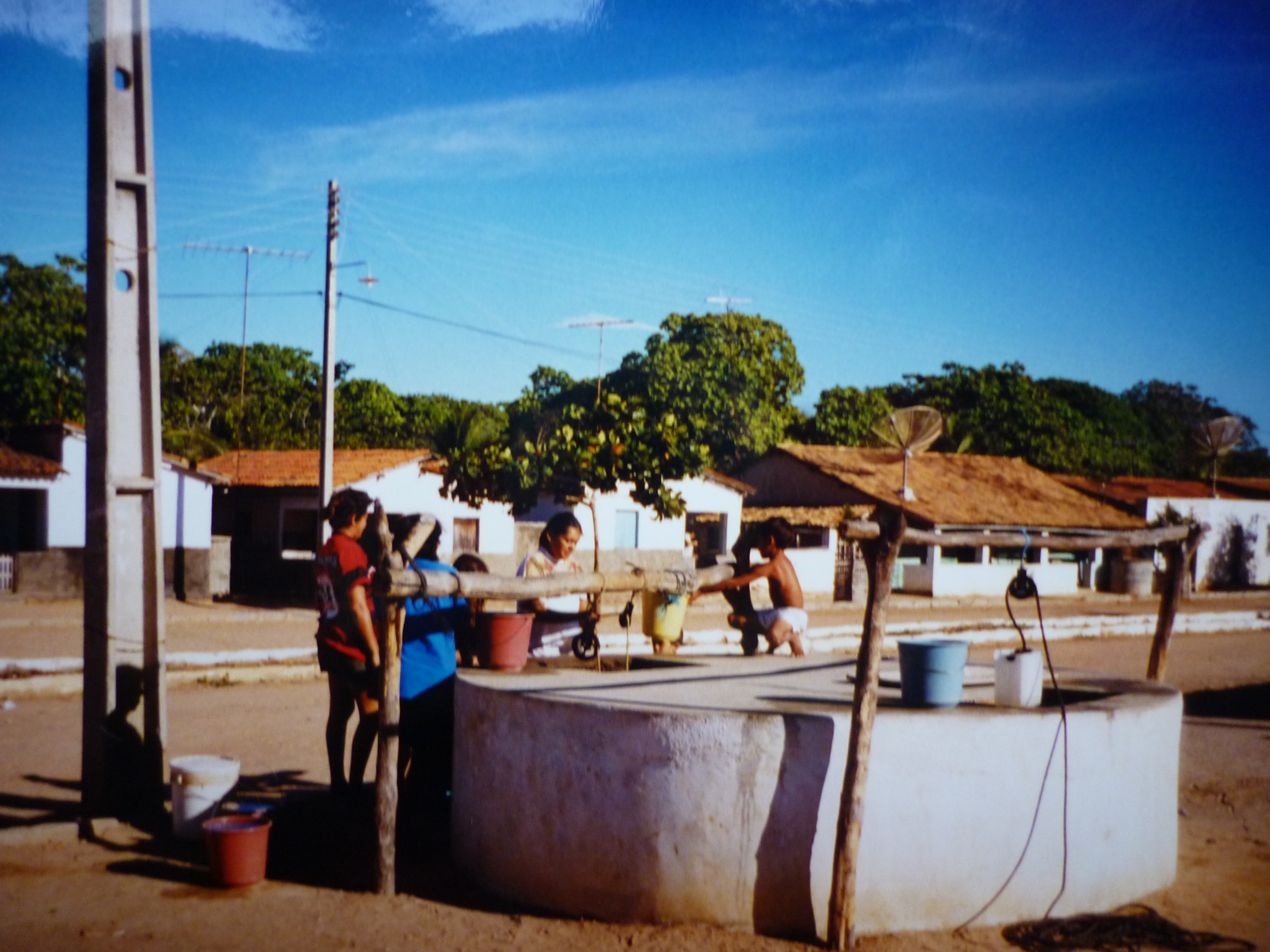 Center of Ocara